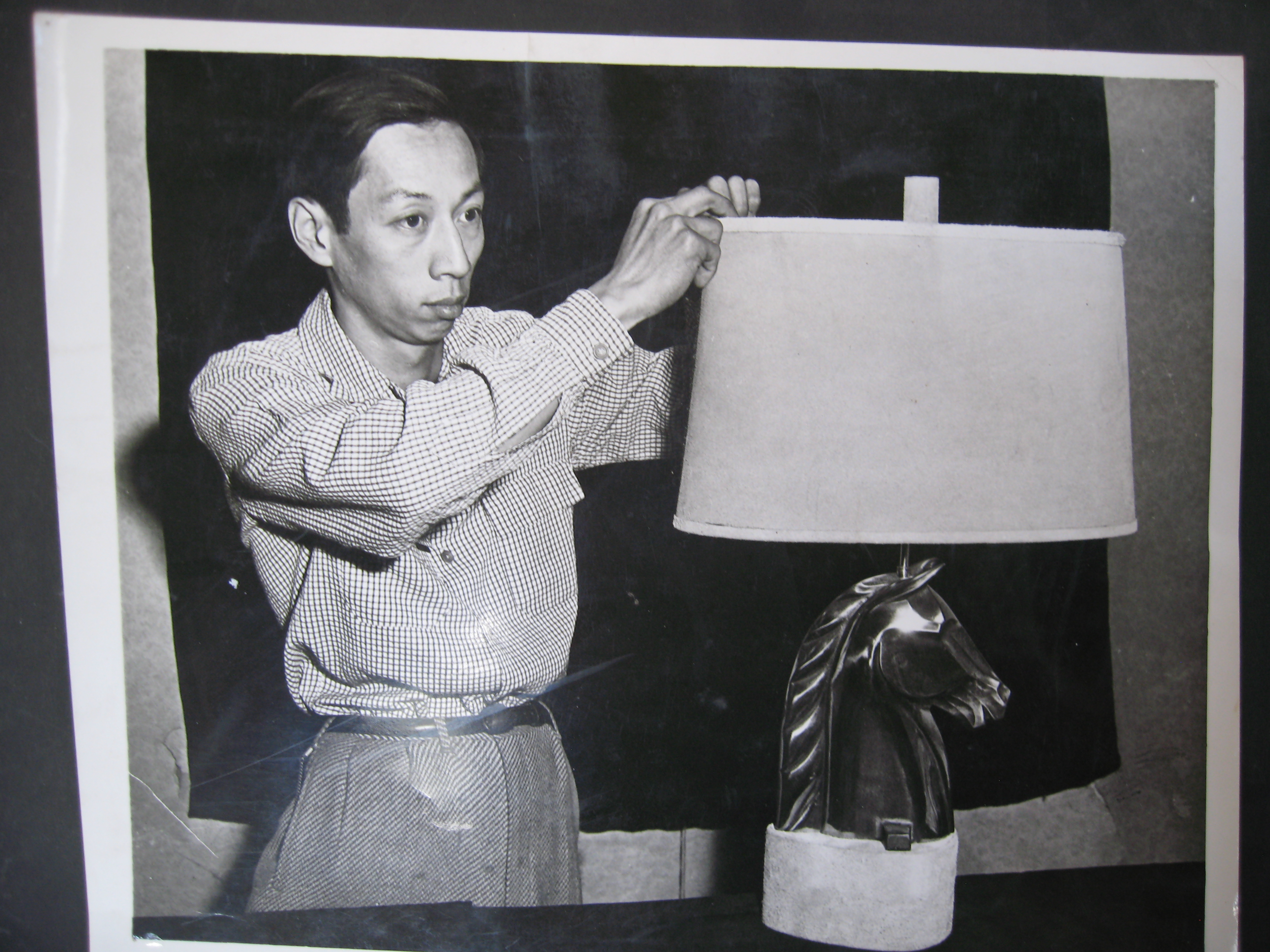 This is a picture of a completed sculpture that was made in collaboration with Henery "Bob" Jones